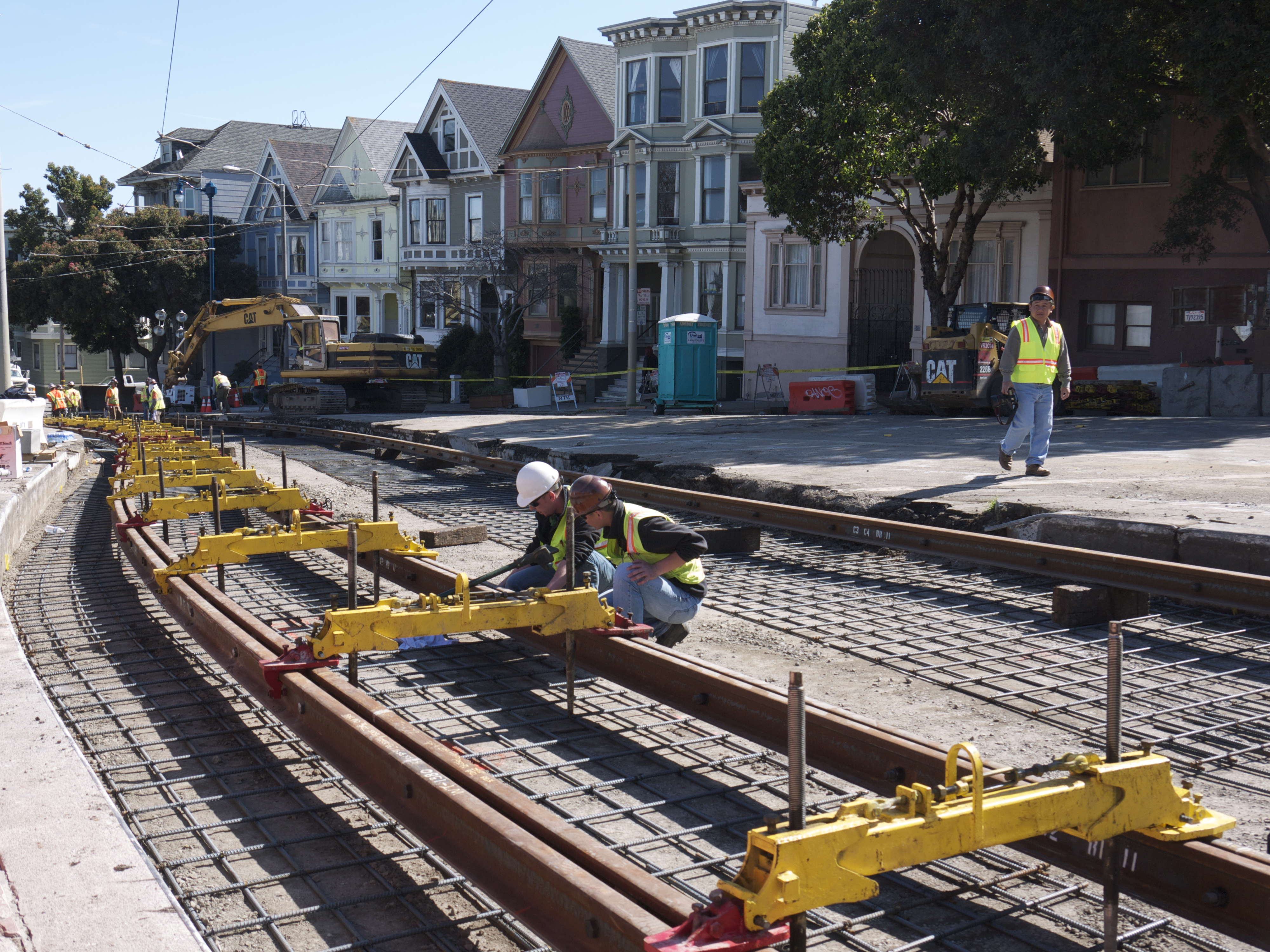 Track gauge is precisely set during trackwork at Duboce and Noe in February 2012